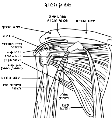 The human shoulder joint